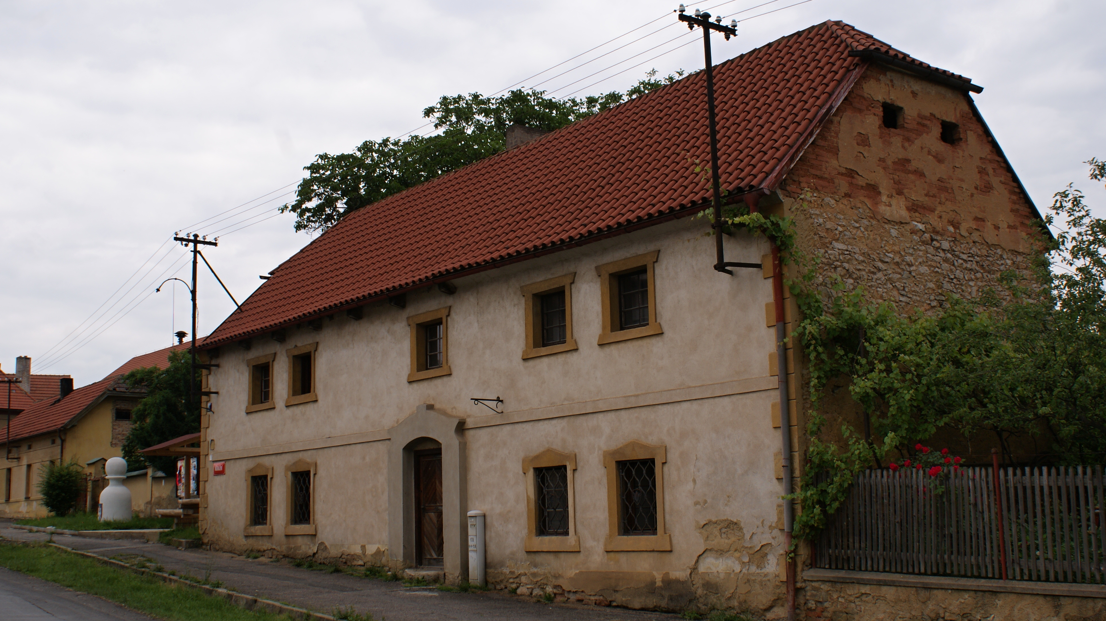 Former granary in Liteň